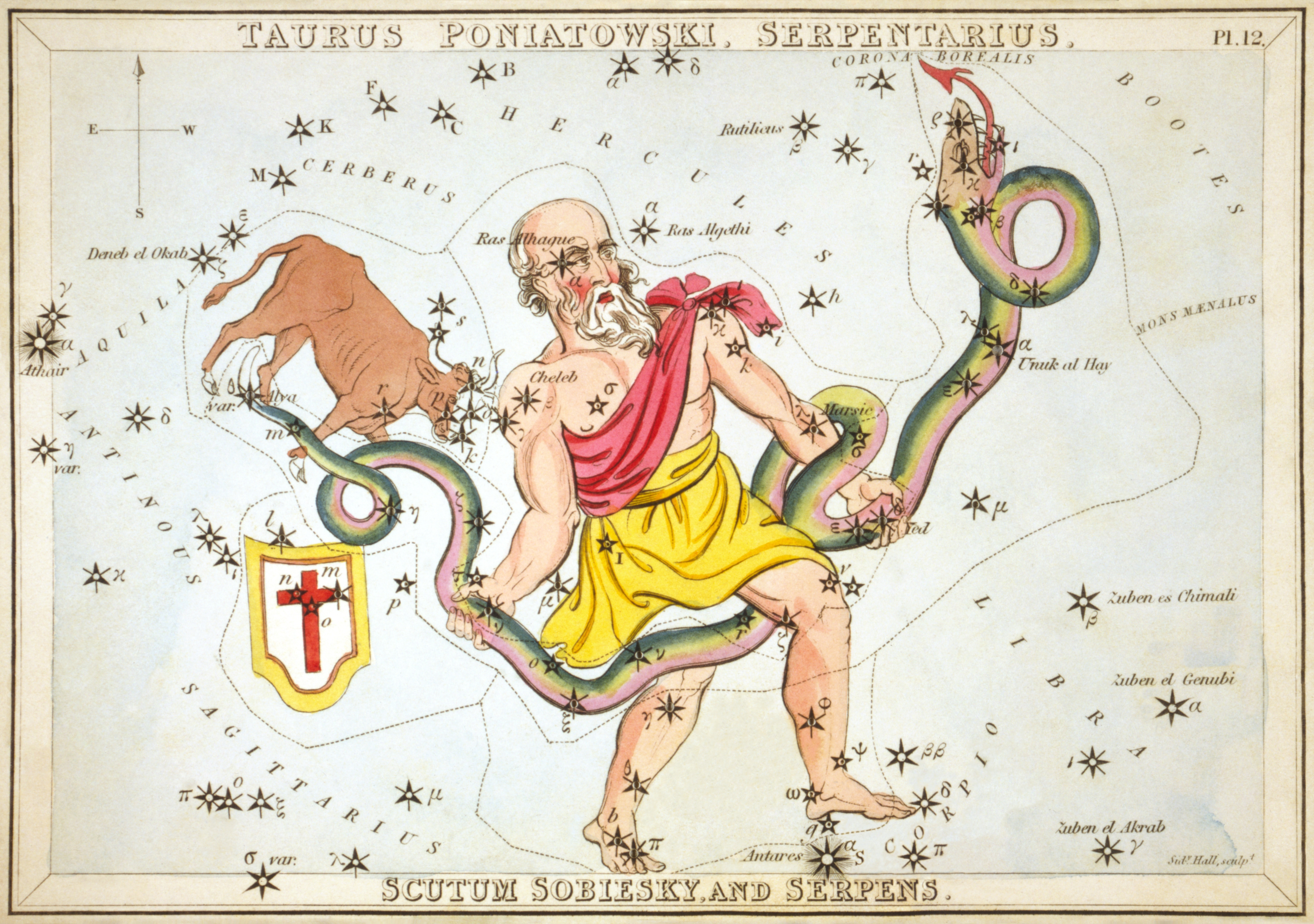 Taurus Poniatowski, Serpentarius, Scutum Sobiesky, and Serpens, plate 12 in Urania's Mirror, a set of celestial cards accompanied by A familiar treatise on astronomy ... by Jehoshaphat Aspin. London. Astronomical chart. 1 print on layered paper board : etching, hand-colored.